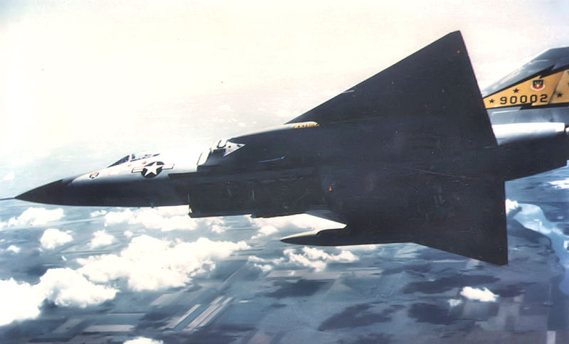 5th FIS F-106 59-0002 in ADTAC insignia